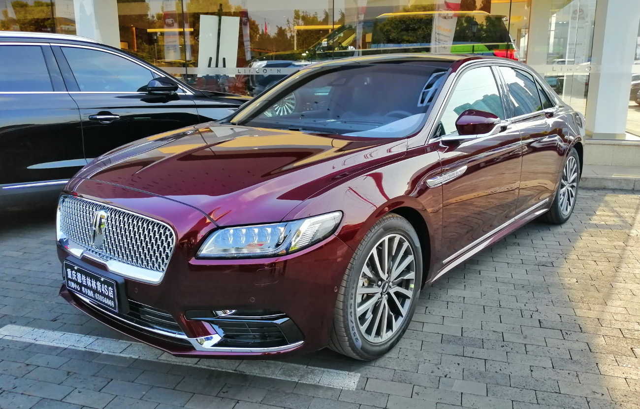 Lincoln Continental X photographed in Chongqing, China.